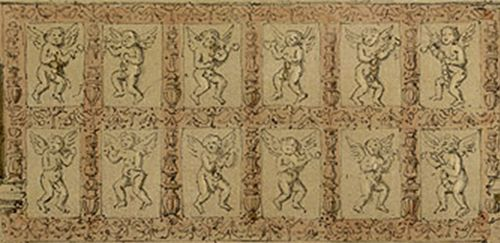 Terracotta amorini moulded decoration above main entrance door of Sutton Place, Guildford, Surrey.